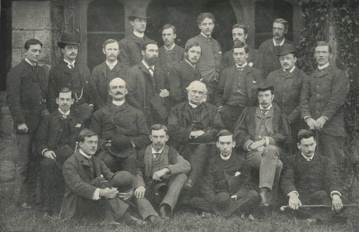 "In the group Archbishop Lang is standing behind Dr. Stubbs' left shoulder - Bishop Henson sits below the Professor's feet. Of four members who afterwards went into the House of Commons, T. E. Ellis is the third figure from the left in the third row; Marriott, in cap and gown, is seated; Ryland Adkins is the extreme right-hand figure of the whole group; I myself am standing at the back in the point of the arch. The bald sitter on Dr. Stubbs' left is our American friend, Breasley [sic], who first induced the Professor to act as father and patron to the Society, and who was the first secretary." Oman, Charles (1941), Memories of Victorian Oxford, Methuen & Co. London, p. 106